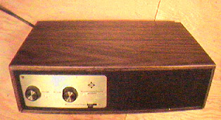 Wometco Home Theatre decoder set top box